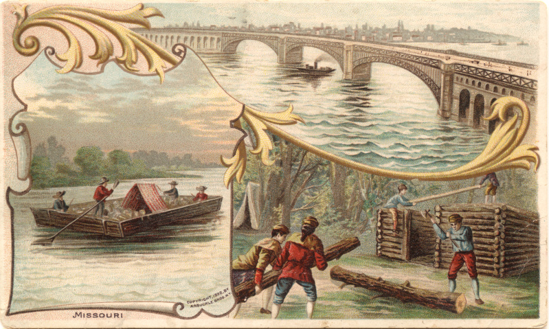 Persistent URL: Subject (TGM): Coffee industry; Statehood; Rivers; Bridges; Rafts; Historical events; Pioneers; Log cabins; Log buildings; Message: Keywords